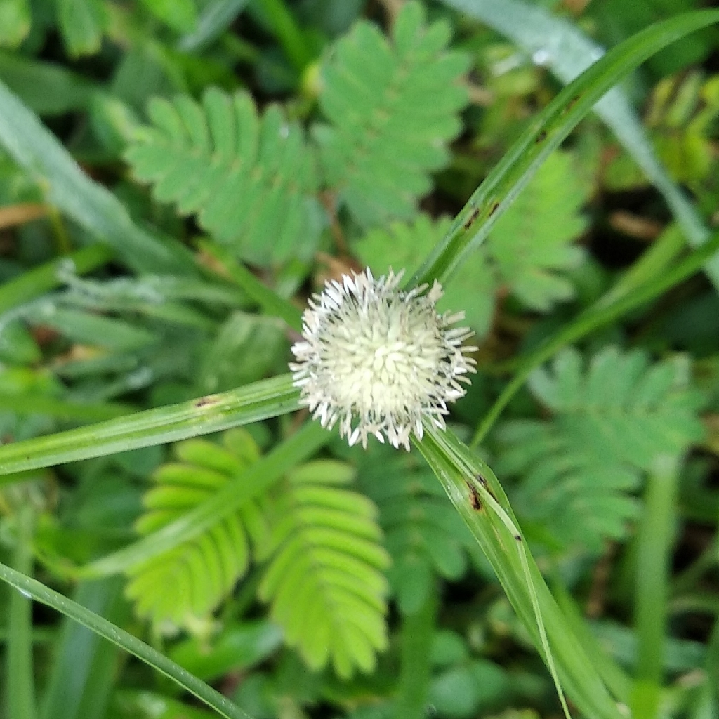 Inflorescence of Kyllinga brevifolia